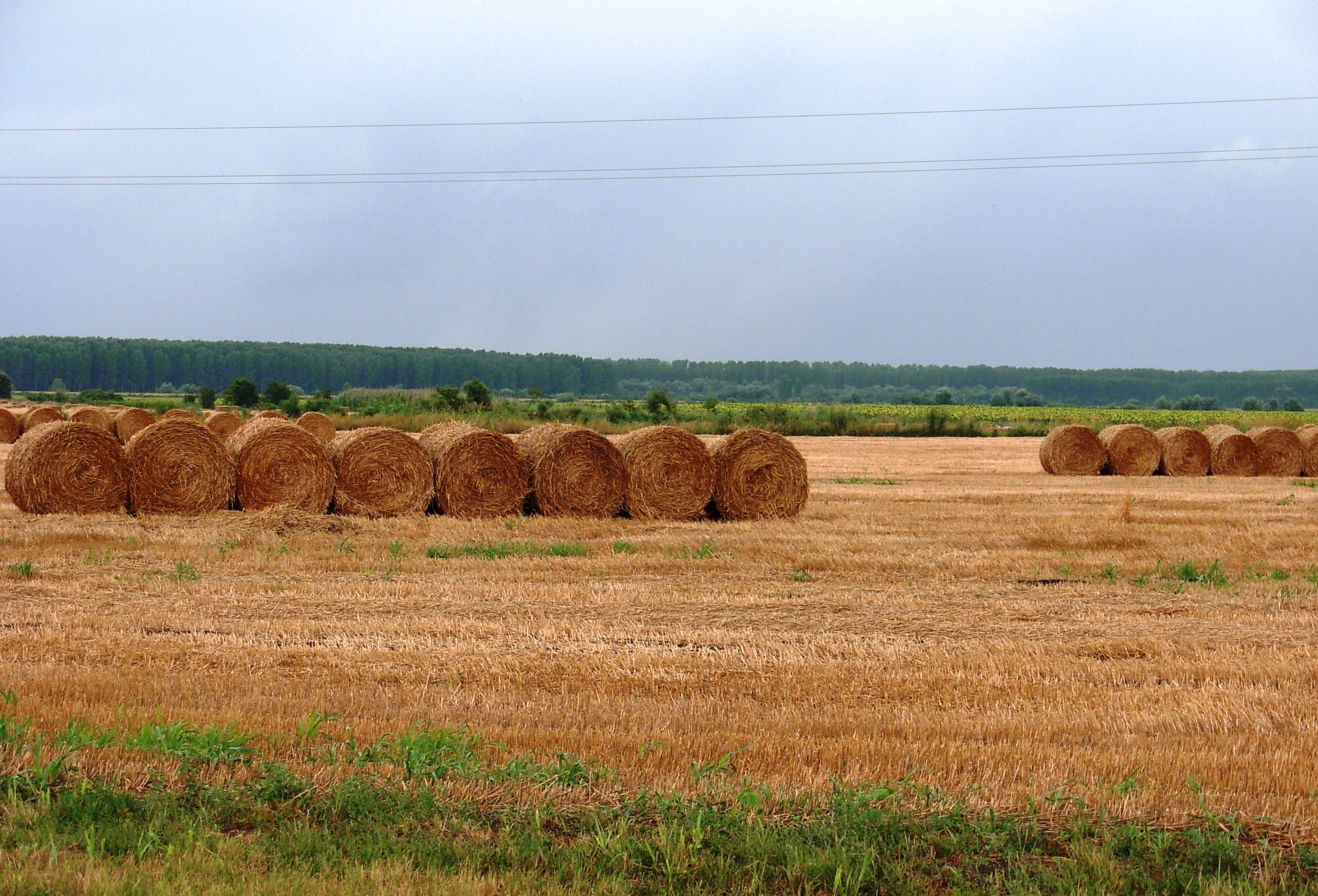 Round straw bales